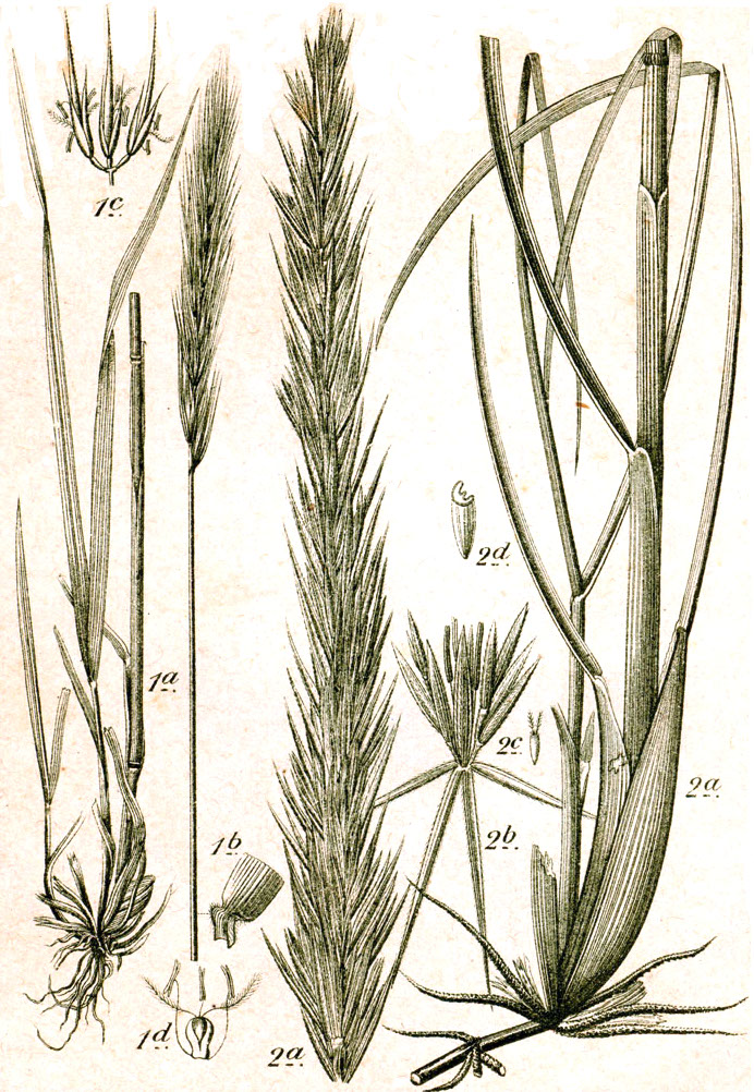 1. Hordelymus europaeus (L.) Jess. ex Harz, syn. Hordeum sylvaticum Huds. 2. Leymus arenarius (L.) Hochst., syn. Elymus arenarius L. Original Caption 1. Wald-Gerste, Hordeum sylvaticum Huds. 2. Strandhafer, Elymus arenarius L.